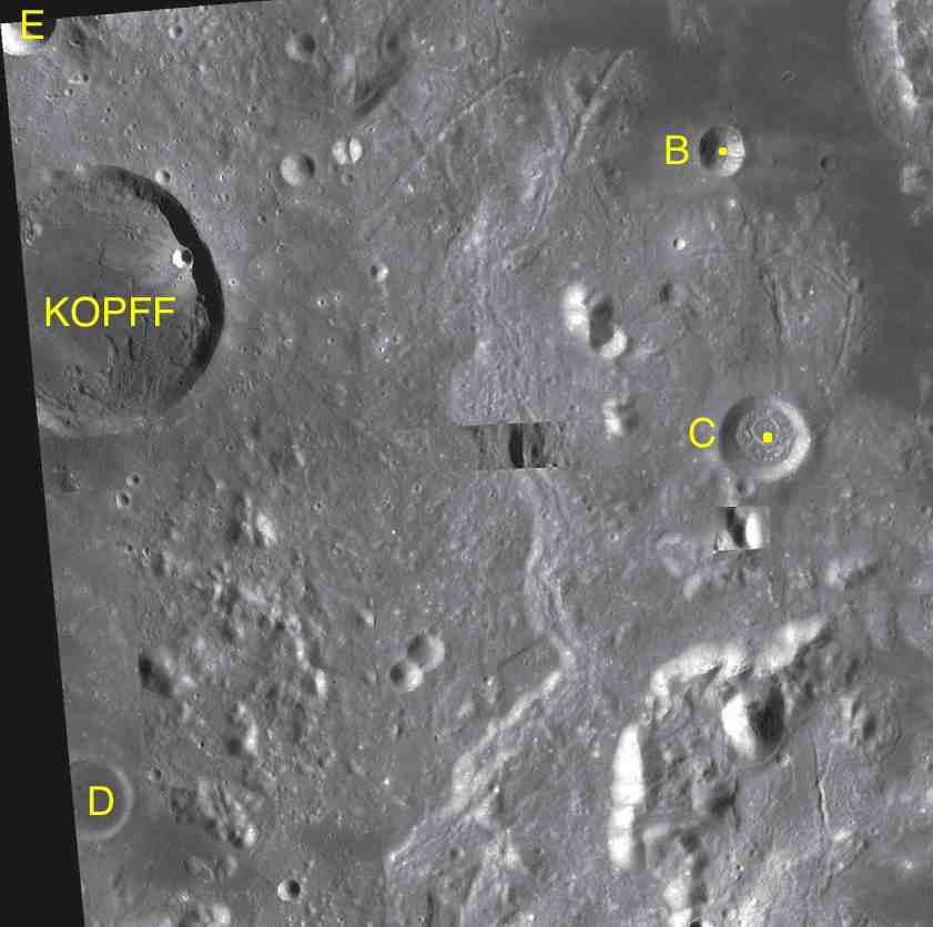 Part of the chart LAC-91 used for the presentation